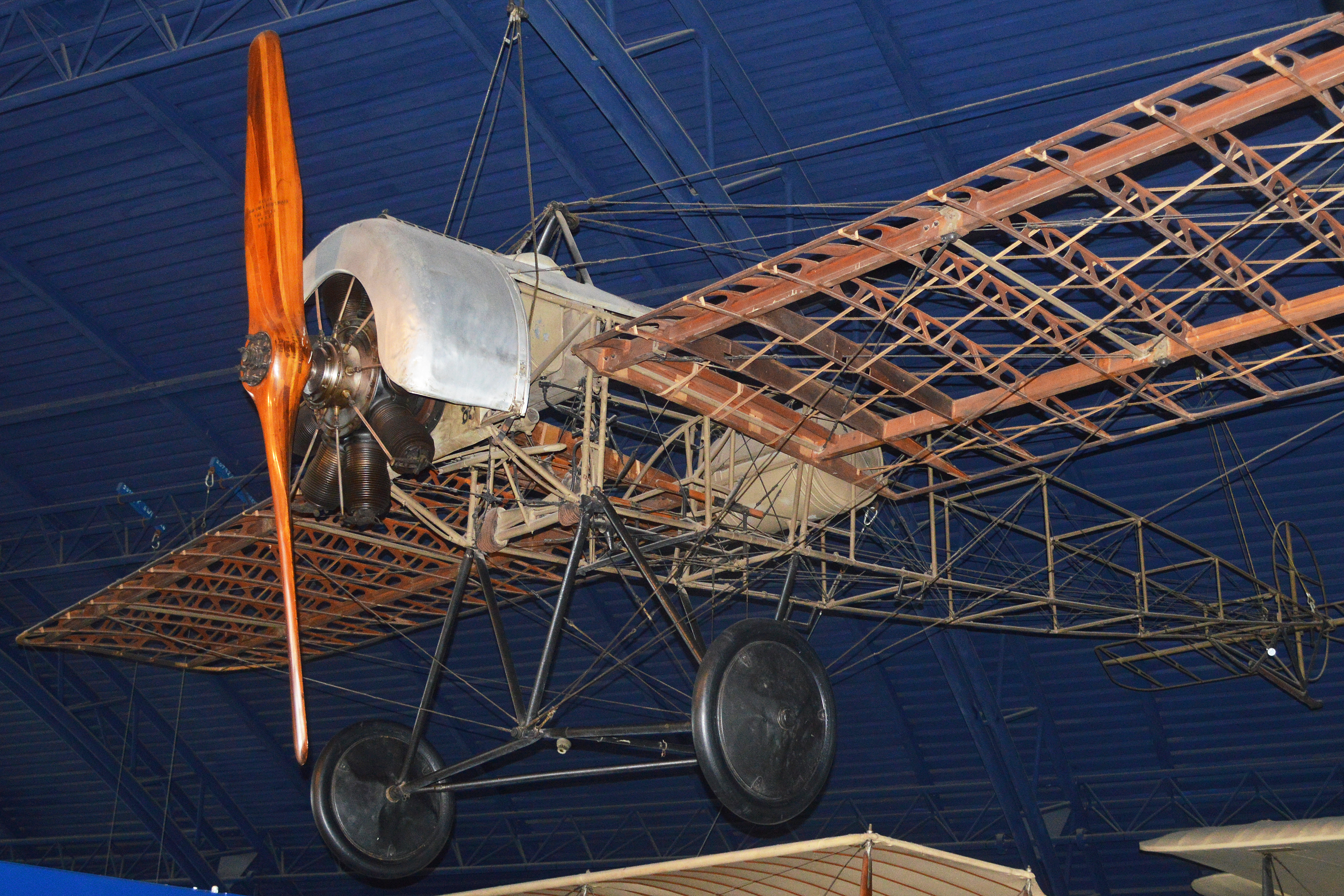 c/n 509. The Fokker E.III, often known as the Eindecker, was significant in that it was the first aeroplane to have a fixed, forward-firing machine-gun, synchronised to fire through the propeller. It was also very maneuverable and is the aeroplane with which Max Immelmann created the Immelmann Turn, now a recognised aerobatic maneuver. The impact of the Eindecker was so significant that it was known as the ‘Fokker Scourge’ to the Allies after it appeared in July 1915, and only when more advanced Allied types appeared in early 1916 did it’s dominance fall away. This sole surviving example was captured when it landed at the British aerodrome at St Omer, after the pilot became lost in haze. It was test-flown against several Allied types and eventually joined the Science Museum in 1918. It is on display without fabric in the ‘Flight’ Hall. Science Museum, South Kensington, London. 16-6-2015